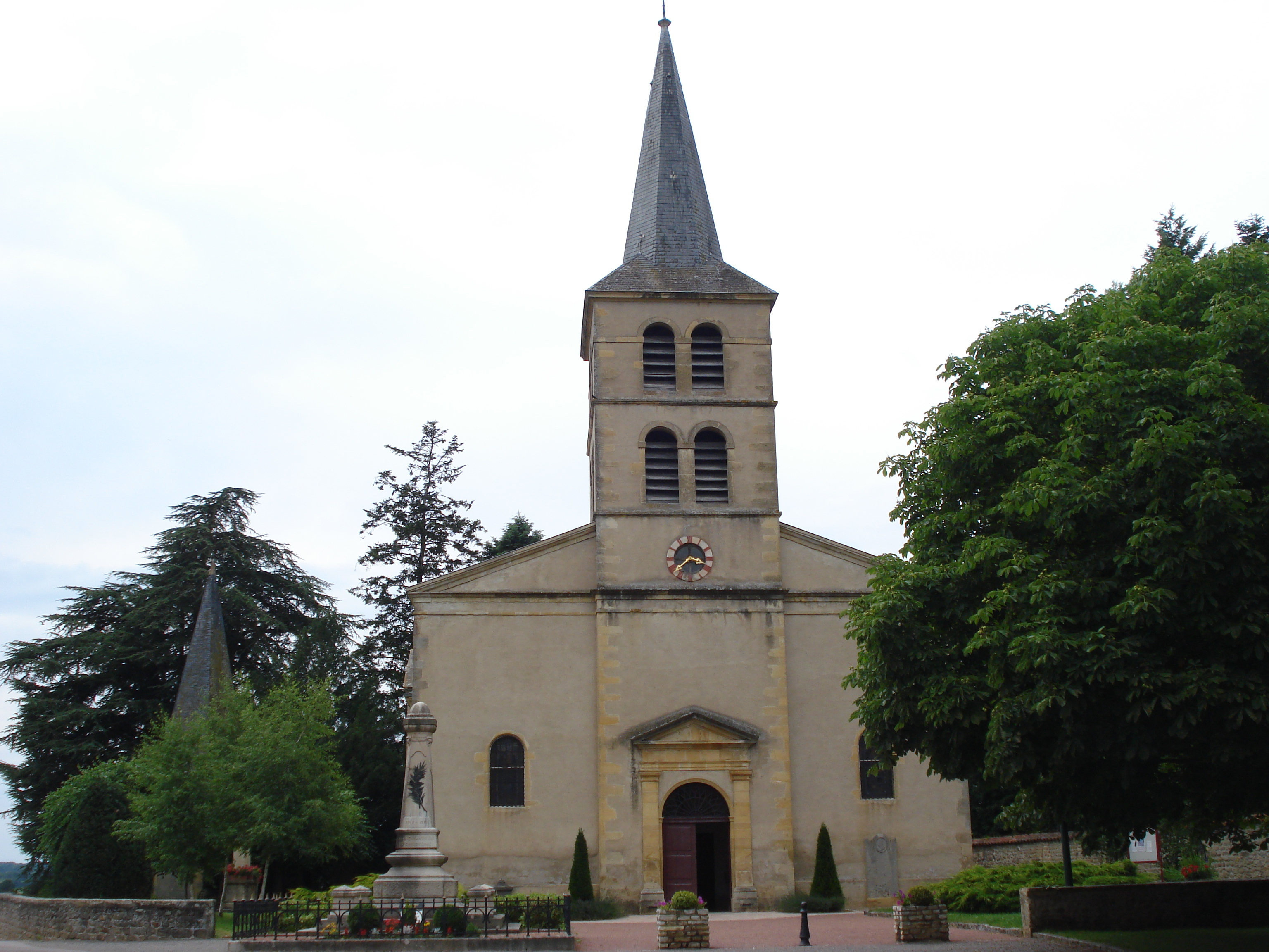 Saint-Christophe-en-Brionnais, l'église.